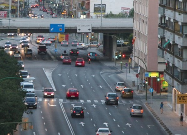 Aragon Street in Palma de Mallorca (Balearic Islands, Spain)